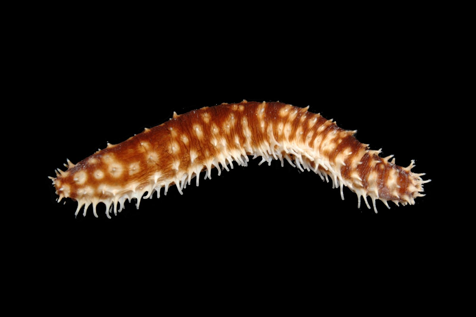 Holothuria hilla. Kosrae, Federated States of Micronesia.